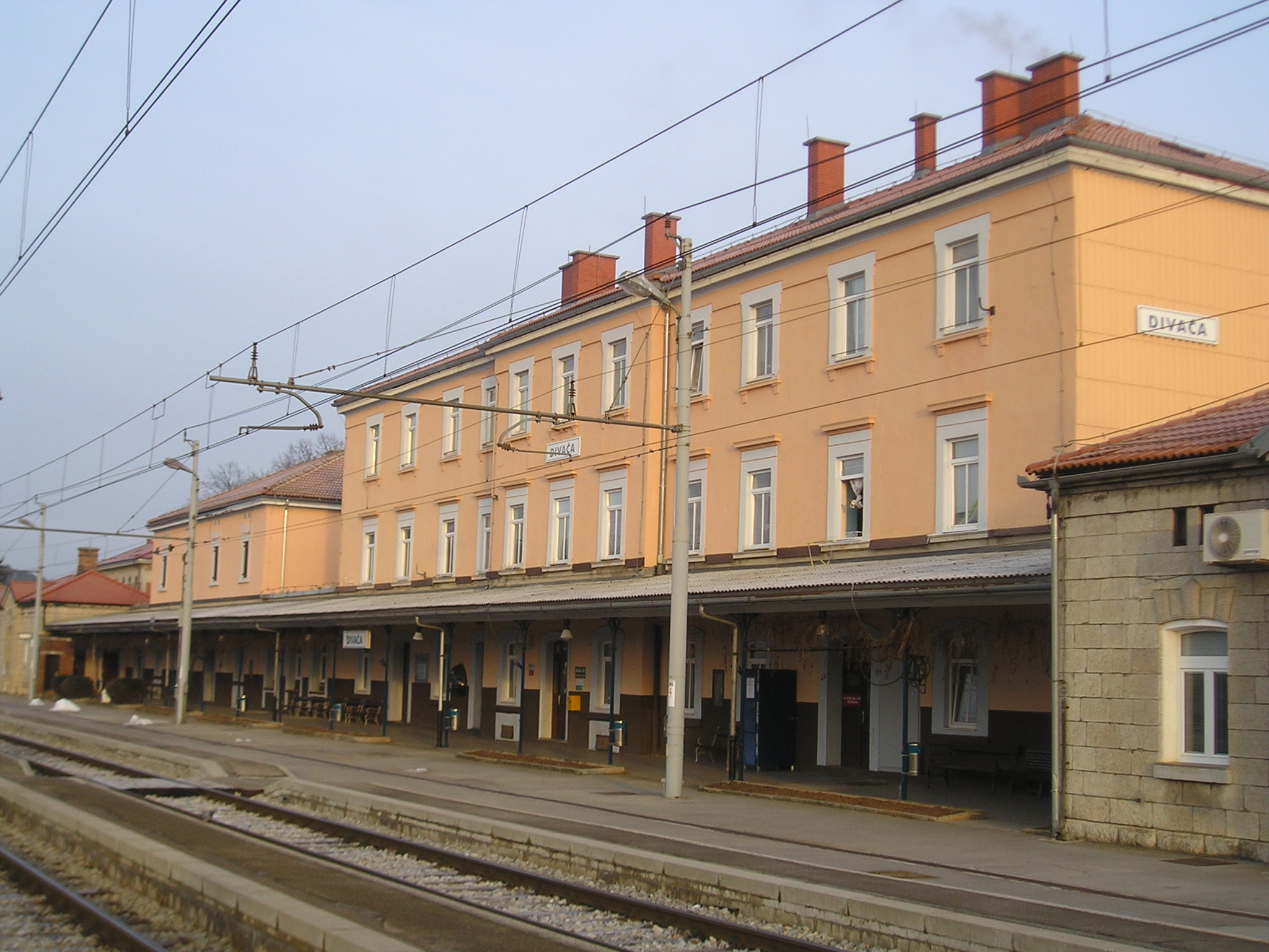 Train station in Divača, Slovenia